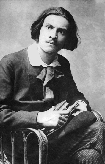 Ignjat Job (1895-1936), Croatian painter.